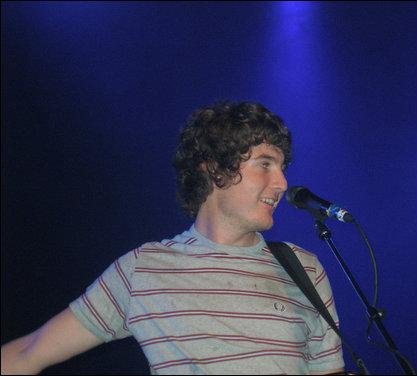 Photo of Joe Carnall